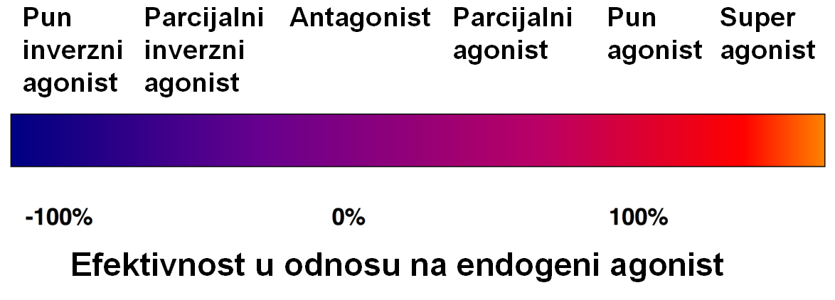 Efficacy spectrum